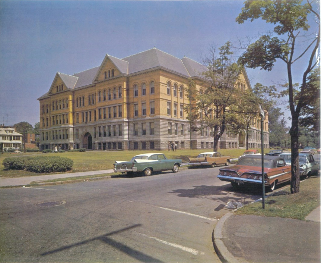 A photograph of the former Holyoke High School building designed by George P. B. Alderman in 1898, and razed by a fire in 1968, soon after its renovation for use by Holyoke Community College.